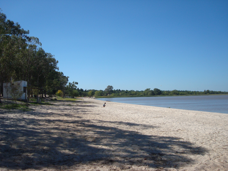 Balneario Zagarzazú, Colonia Department, Uruguay.